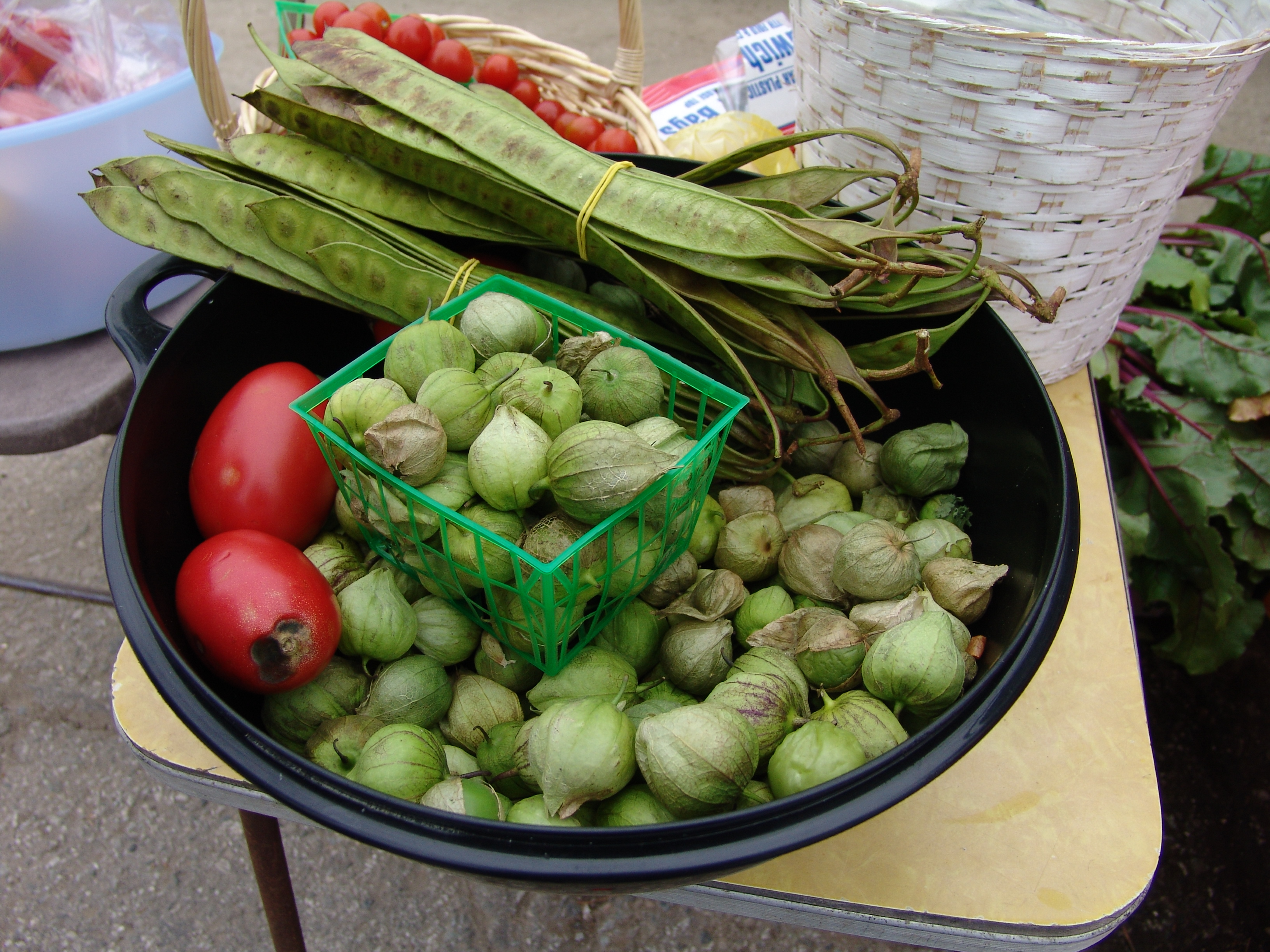 South Central Farm in the city of Los Angeles California. The 14 acres located at 41st and Alameda St. is one of the largest urban gardens in the United States.